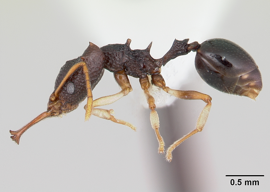 Profile view of ant Microdaceton tibialis specimen casent0178295.